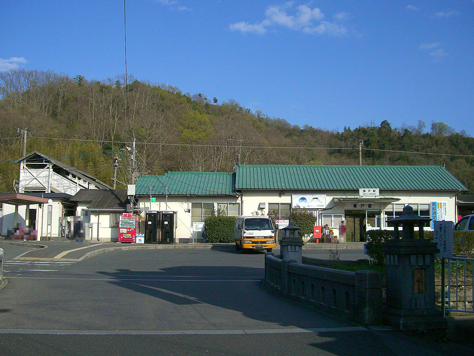 West Japan Railway Sanyo Main Line Seto Station Building 西日本旅客鉄道 山陽本線 瀬戸駅 駅舎